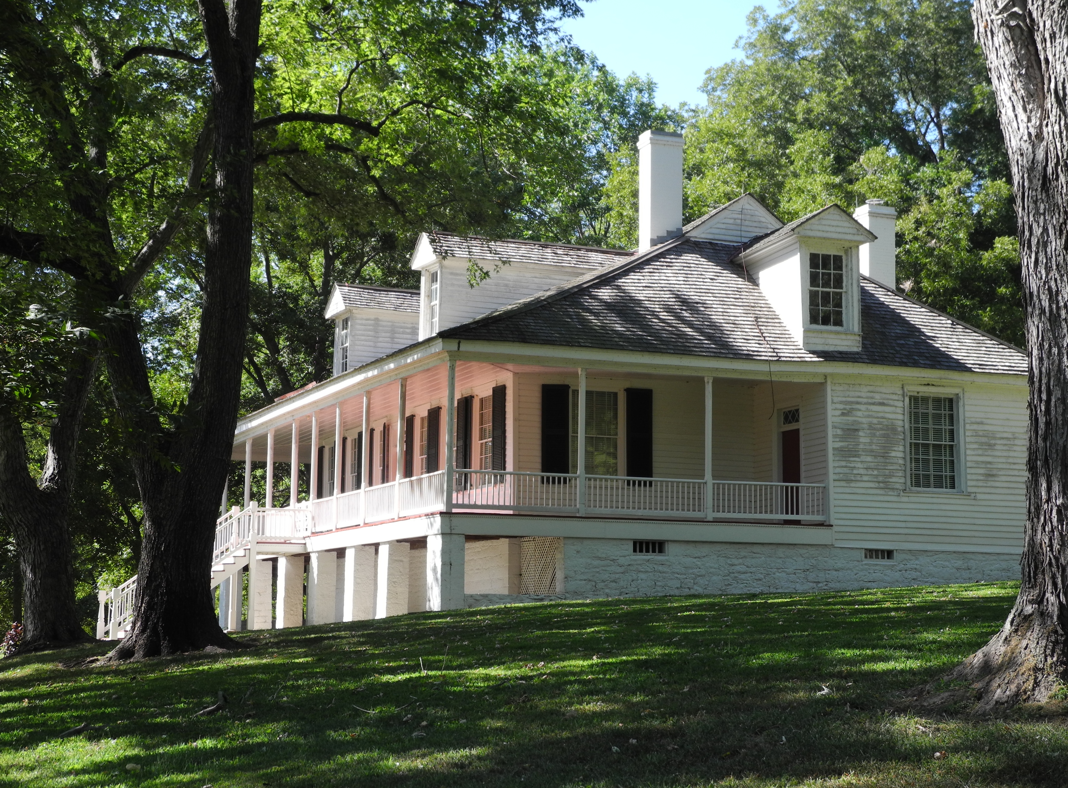 The historic home of Pierre Menard on the banks of the Mississippi River in the state of Illinois.